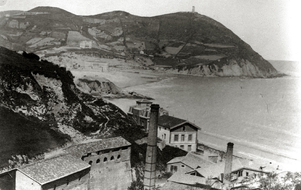 Limestone processing factory La Fe before demolition in 1896, Donostia-San Sebastián, Basque Country; Loretope and Igeldo in the background.